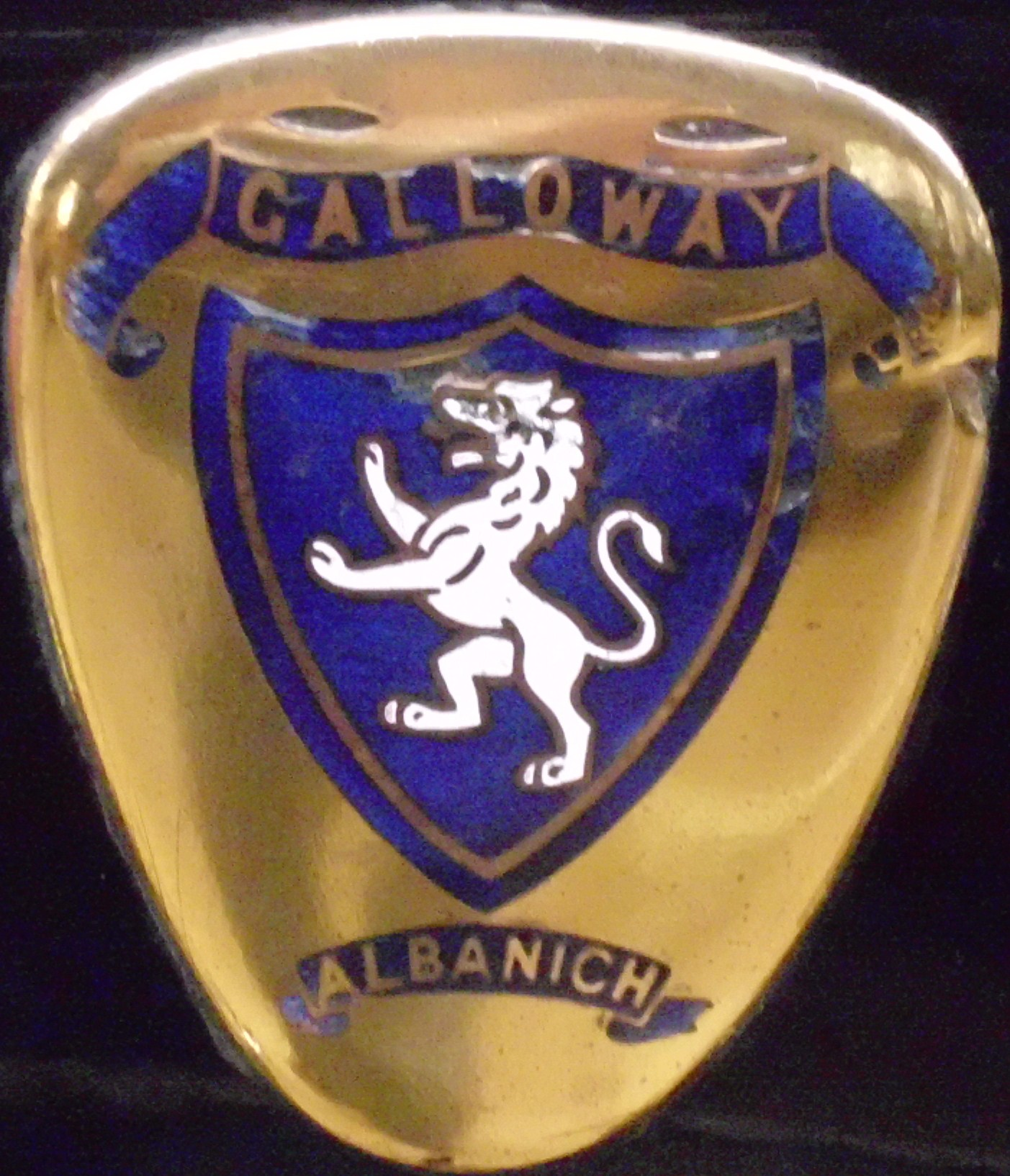 Emblem Galloway